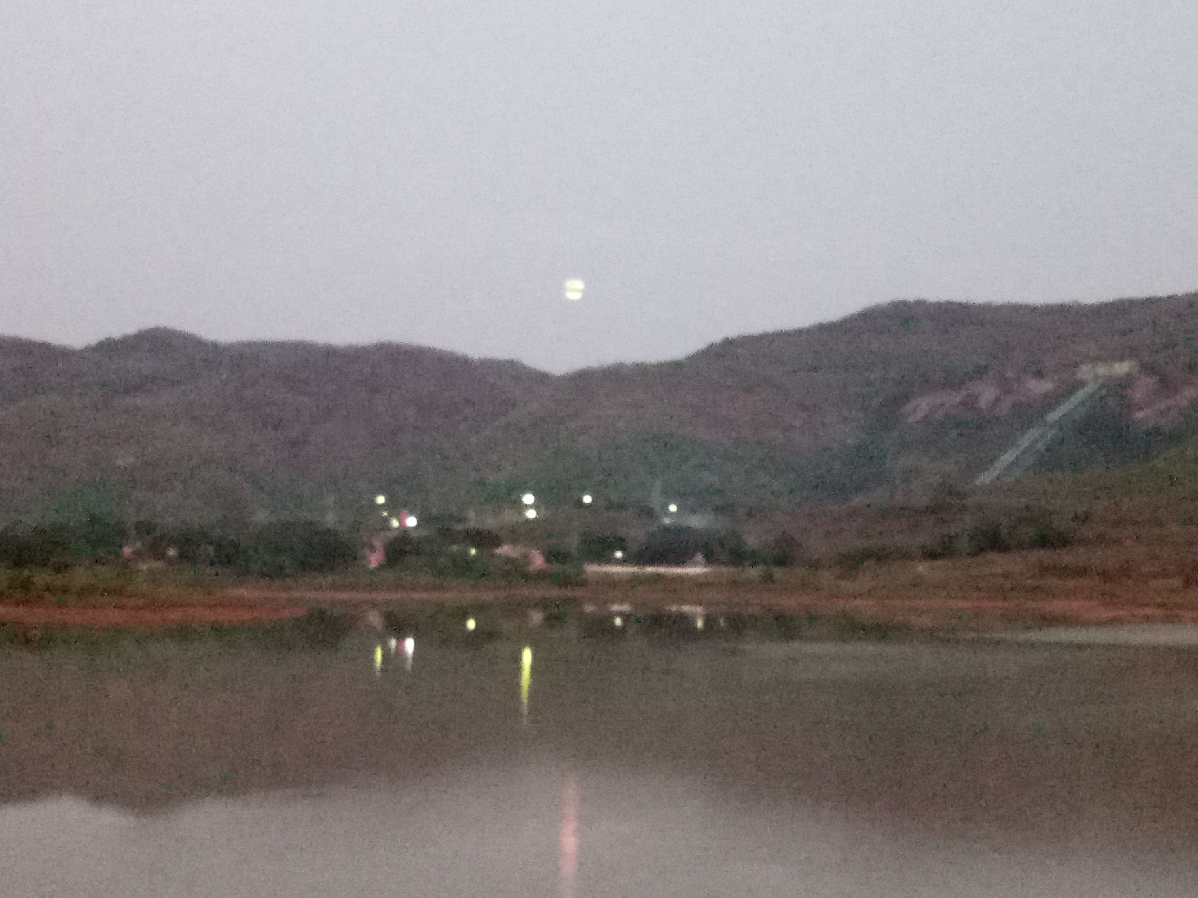 A small hydro power station at jeypore, odisha